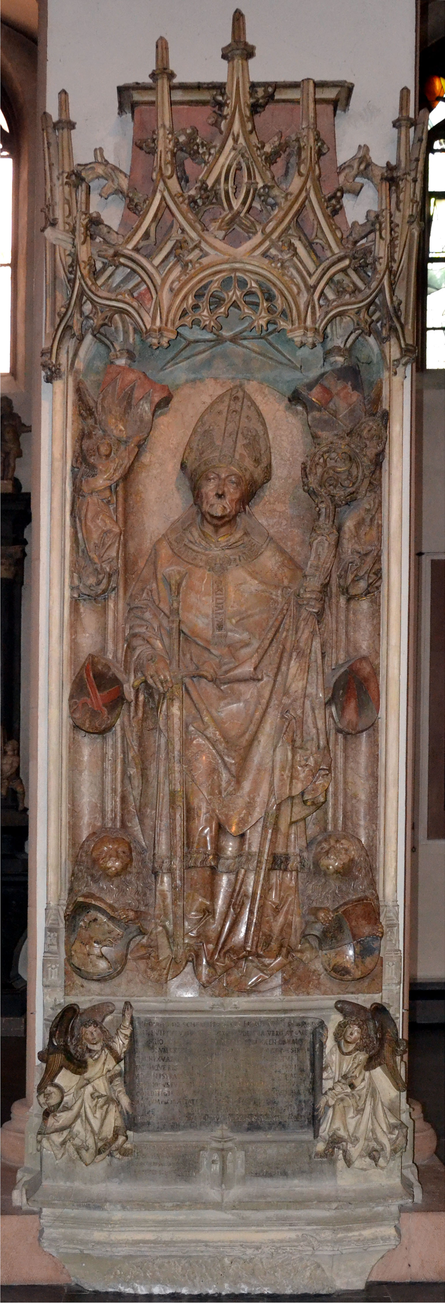 Rudolf von Scherenberg grave